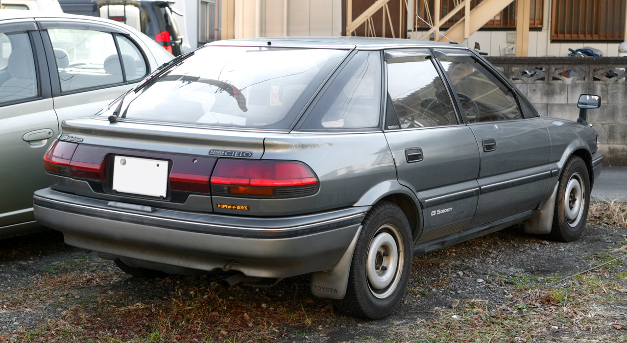 Toyota Sprinter Cielo 1.5 G-Saloon (AE91)